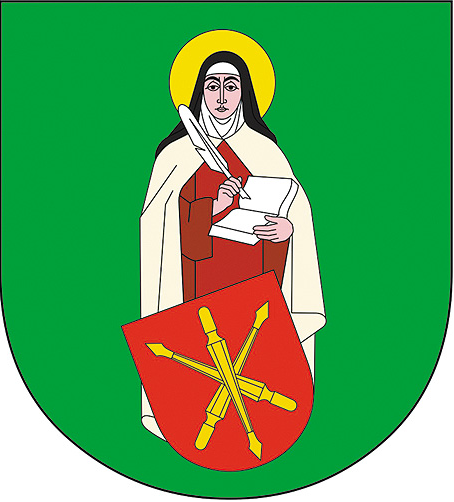 Herb gminy Tereszpol • Coat of arms of gmina Tereszpol